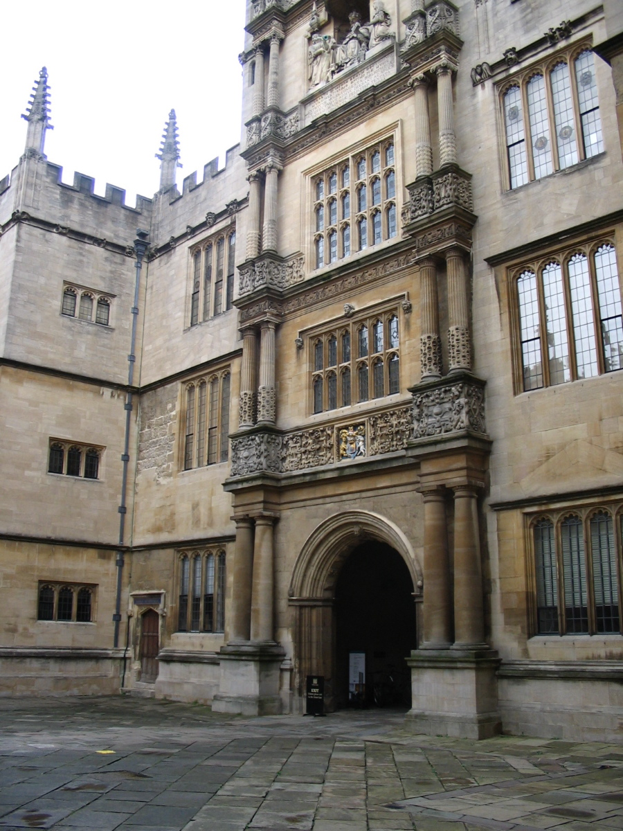 Bodleian Library - columns represent orders of architecture